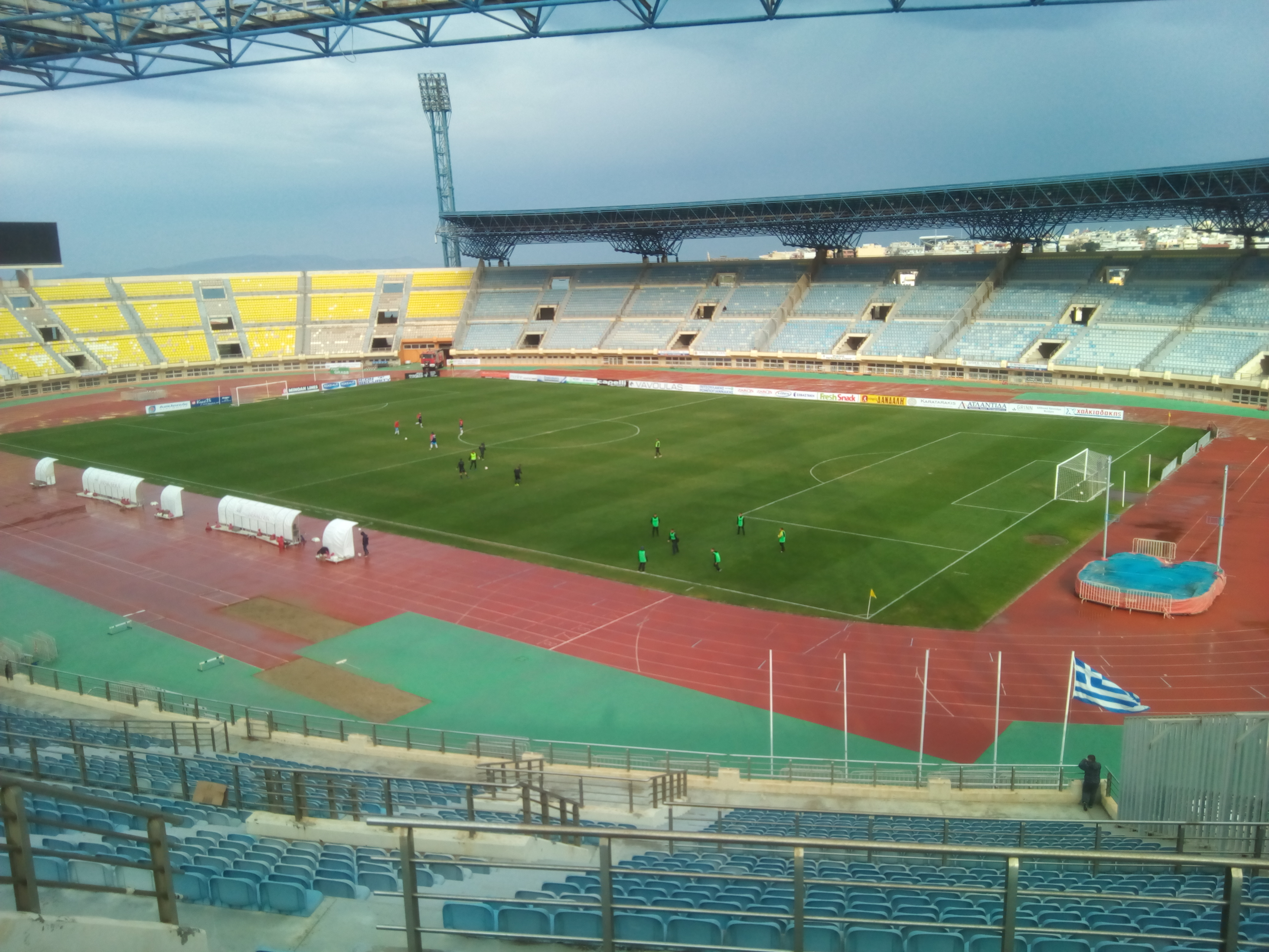 Pankritio Stadium in January 2019.